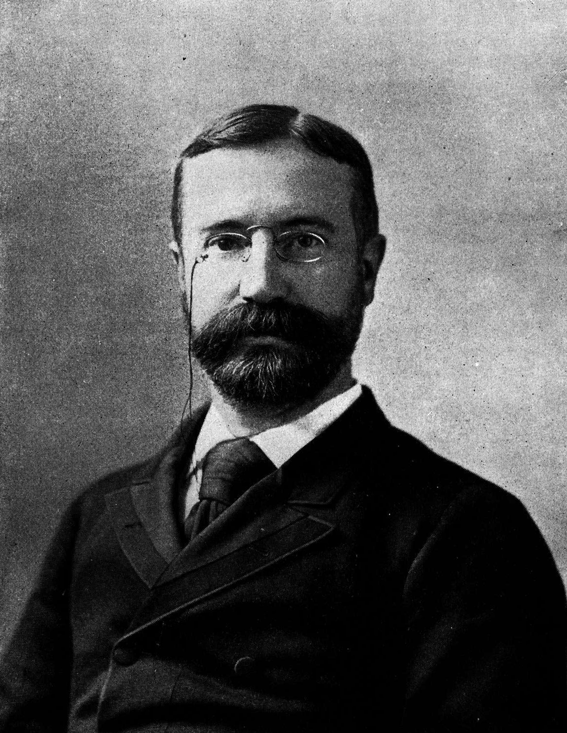 American literary and art critic William Crary Brownel.